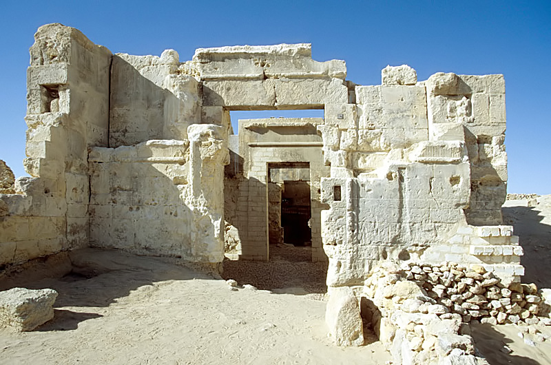 Temple of Amun, view to the north, Aghurmi, Siwa, Egypt